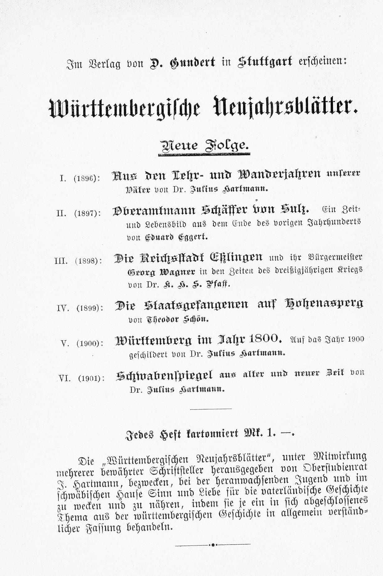 This is a scan of the historical document